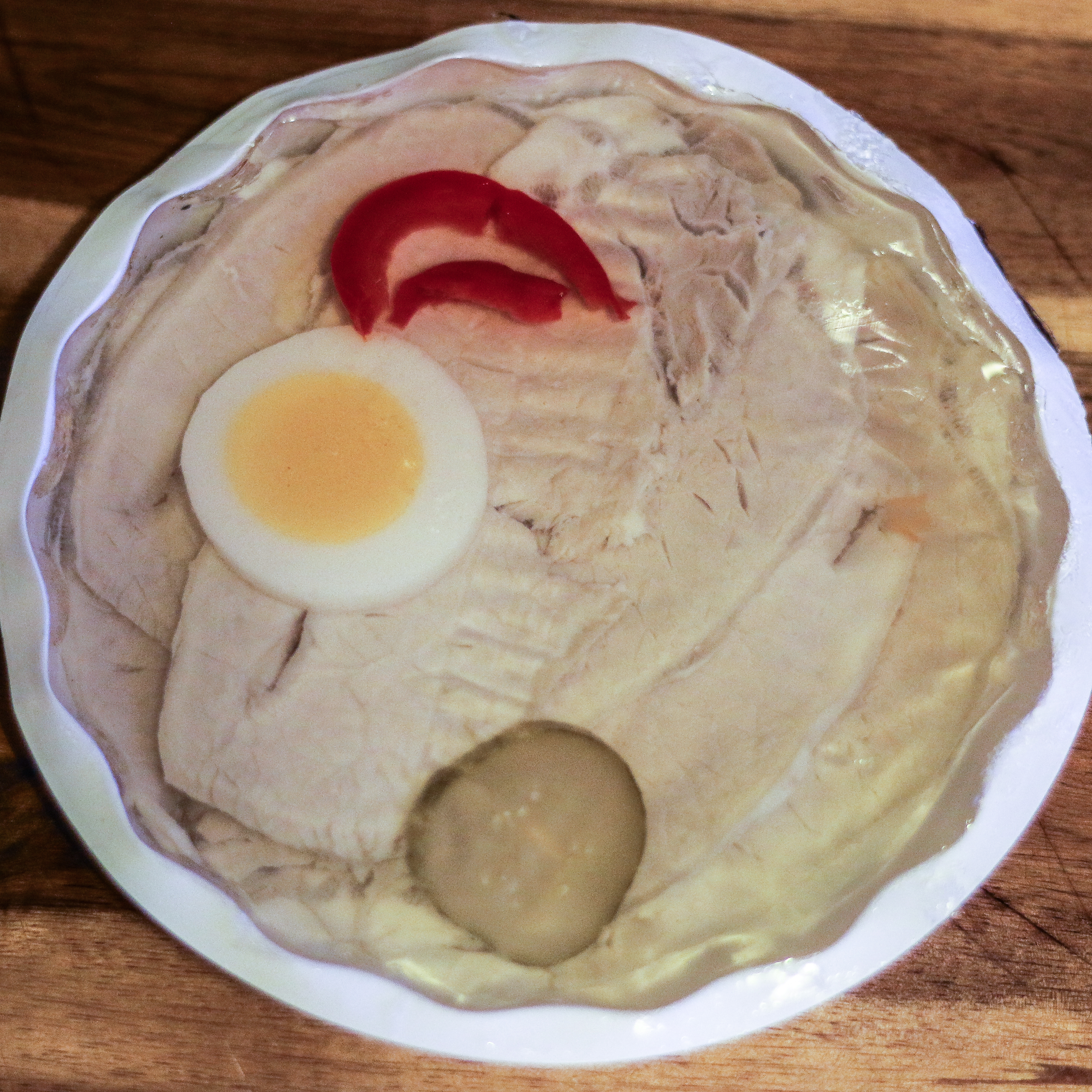 Galantine of cold meat